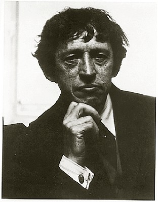 Alfred Stieglitz portrait of John Marin from 1922